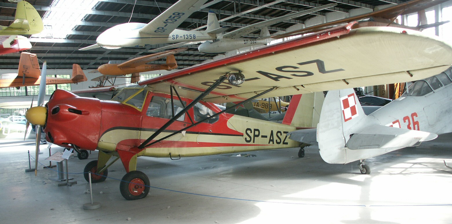 Yakovlev Yak-12 (basic model) in the Polish markings at the Polish Aviation Museum in Kraków